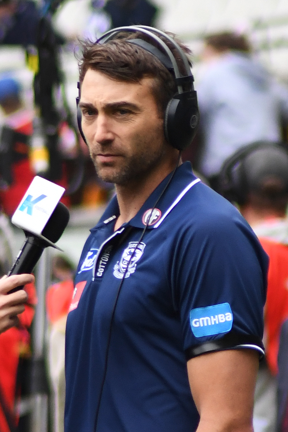 Corey Enright of Geelong during the 2019 AFL round 5 match between Hawthorn and Geelong at the Melbourne Cricket Ground on Monday, 22 April 2019 in Melbourne, Victoria.